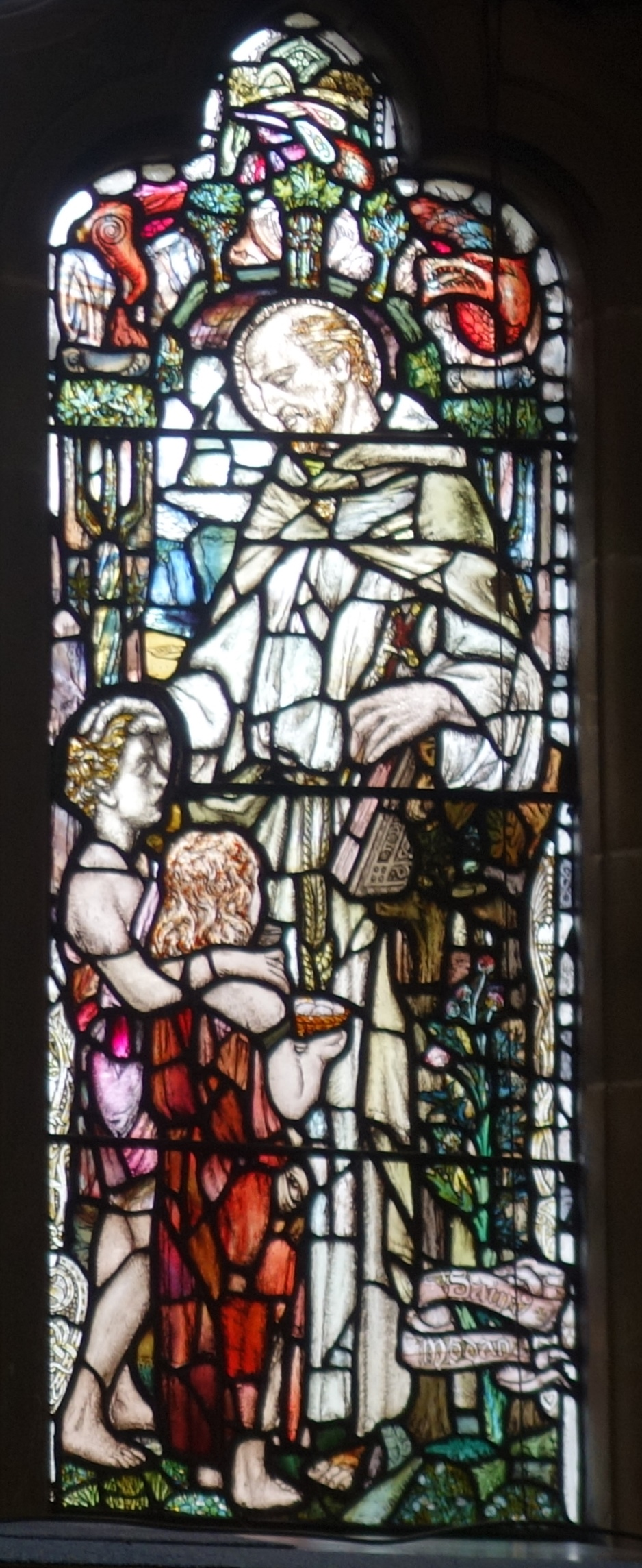 Stained glass windows in Bute Hall, University of Glasgow. Robert Story Memorial Window, by Douglas Strachan, placed in the Bute Hall of Glasgow University on 21 Oct. 1909. Saint Modan